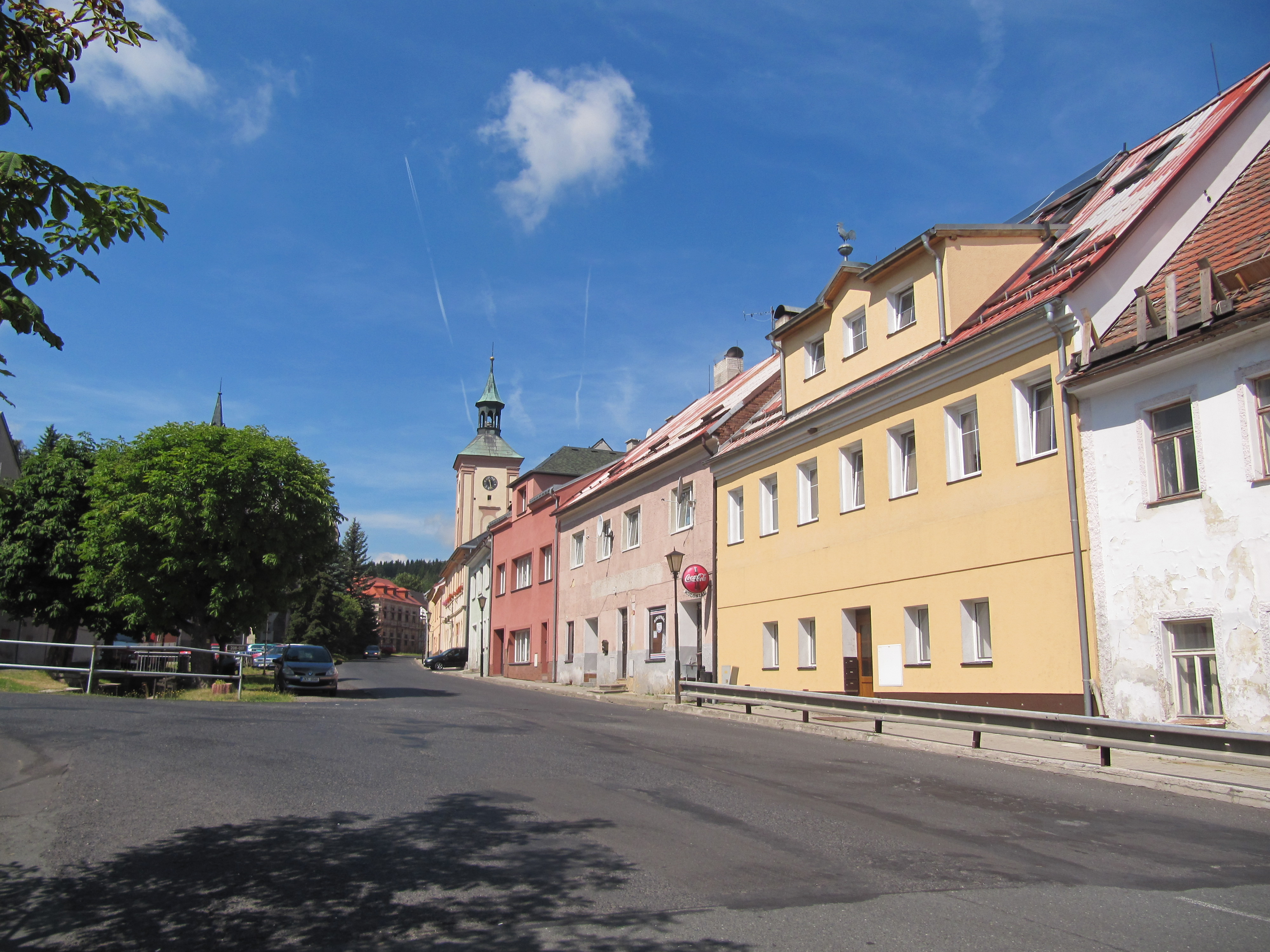 Krásno, Sokolov District, Czech Republic.